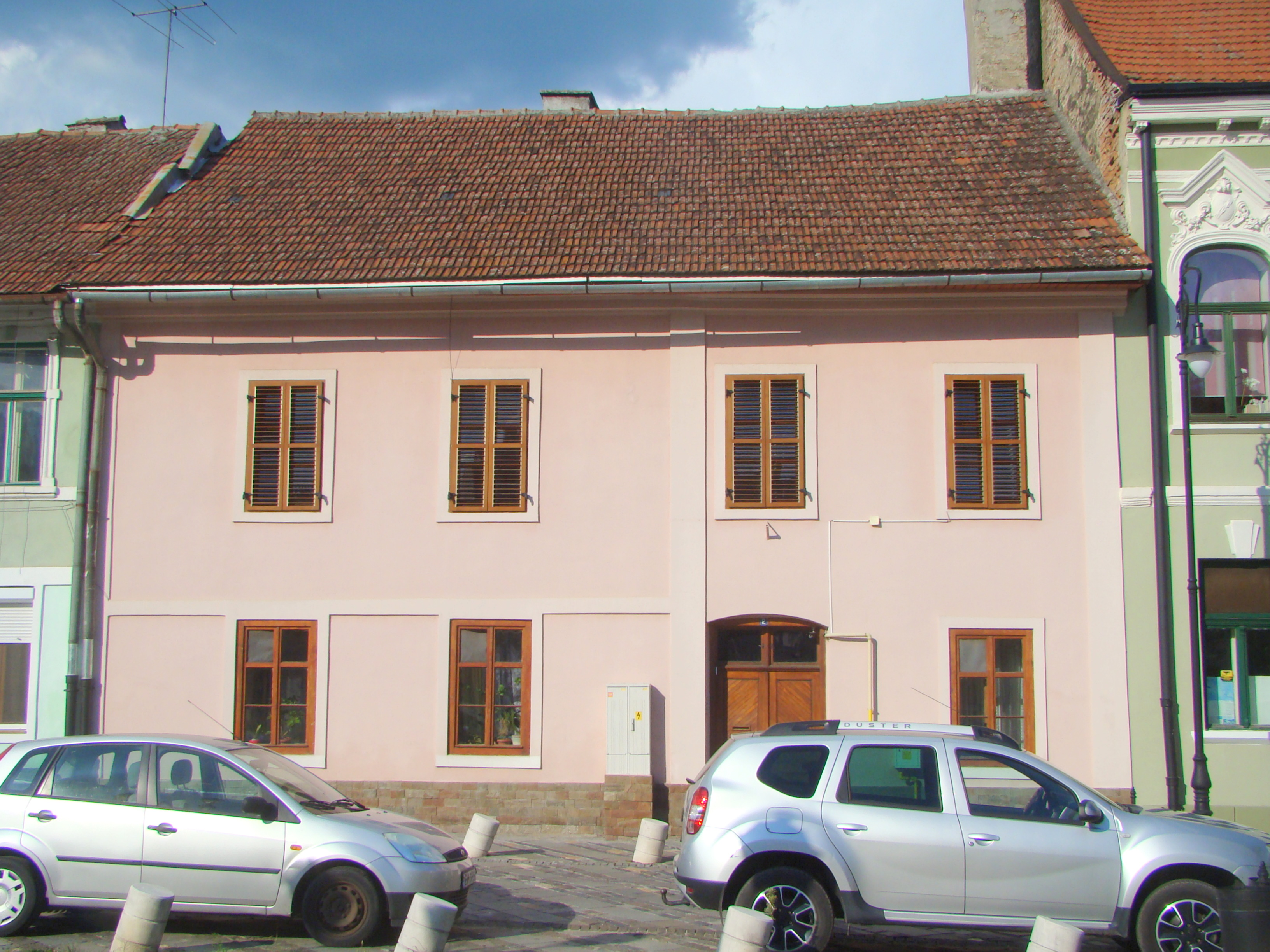 House, historic monument, in Bistrița, Piața Mică 2